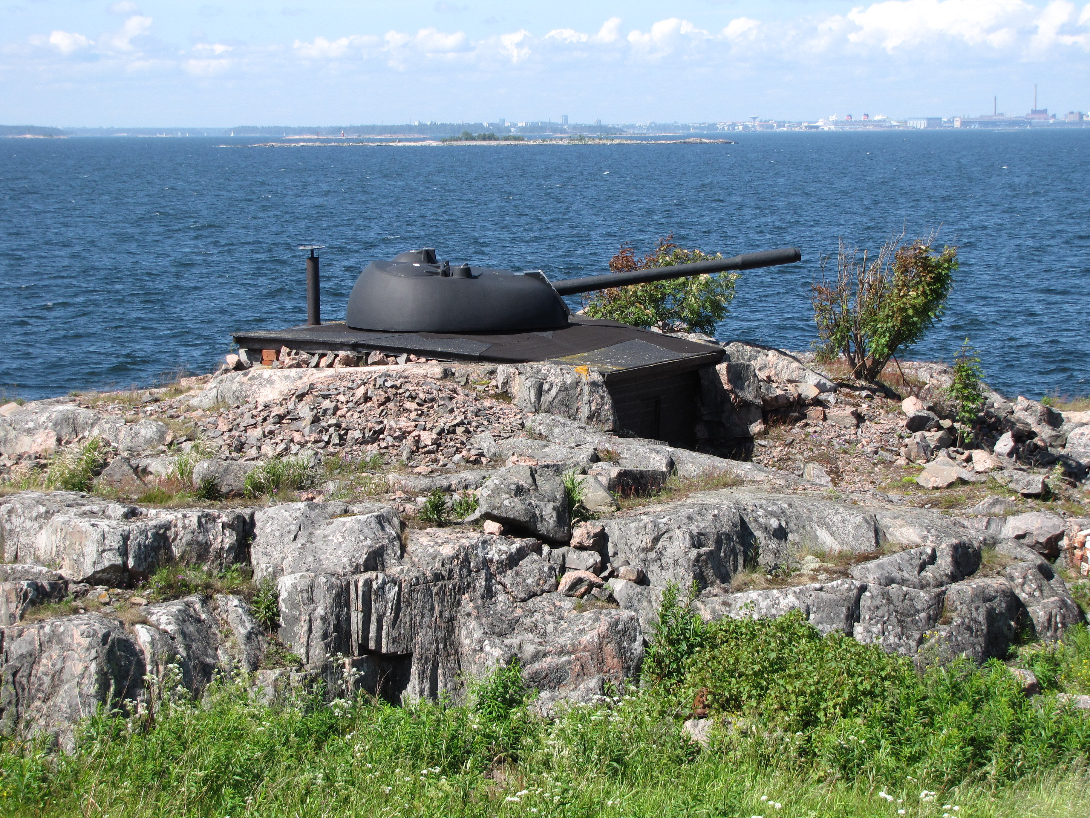 A decoy 100 56 TK coastal gun turret on Kuivasaari island, built to fool the enemy. The chimney is a later addition; the space below the decoy has been converted into a grill house.